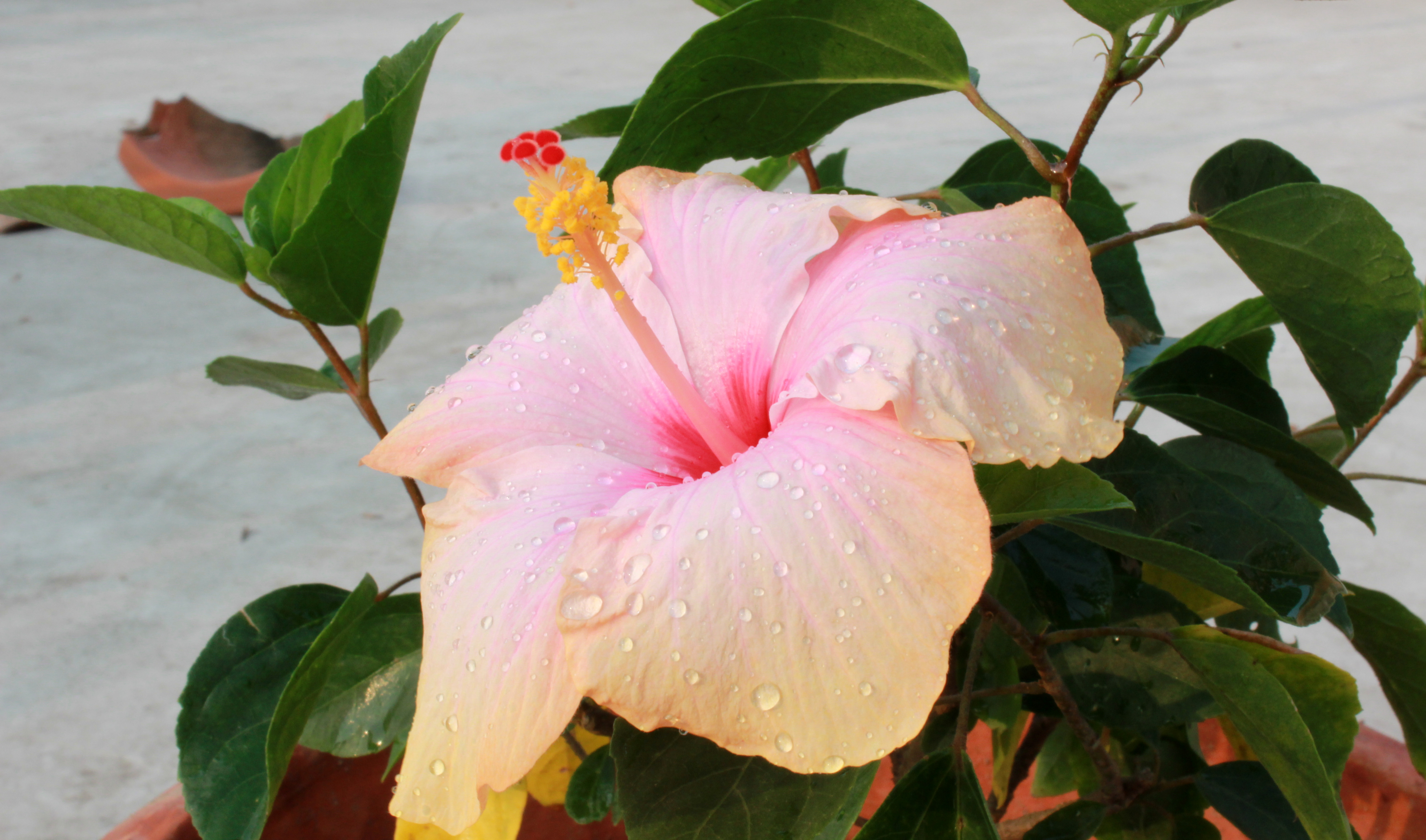 A pink hibiscus in winter.